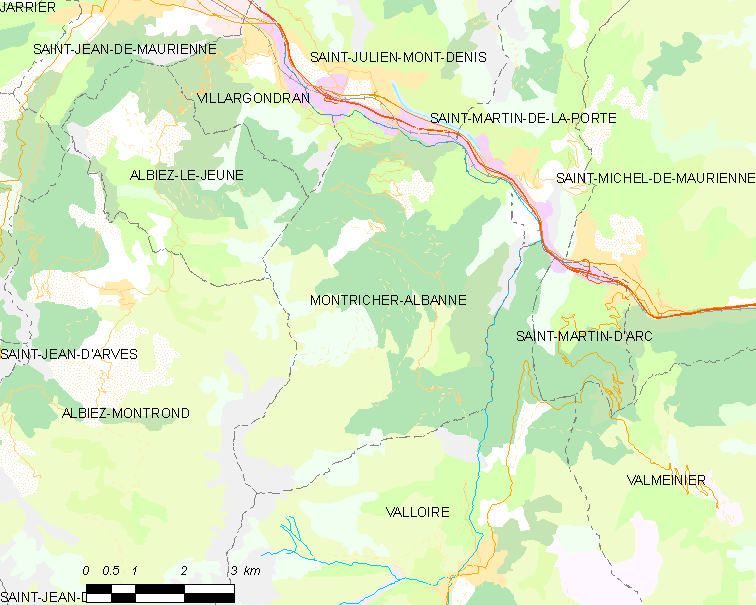 Map of French municipality